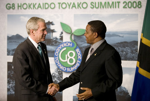 President George W. Bush and President Jakaya Kikwete exchange handshakes at the Windsor Hotel Toya Resort and Spa in Tōyako Town, Abuta District, Hokkaidō on July 7, 2008.